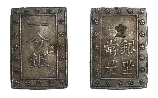 Shonai-1bugin